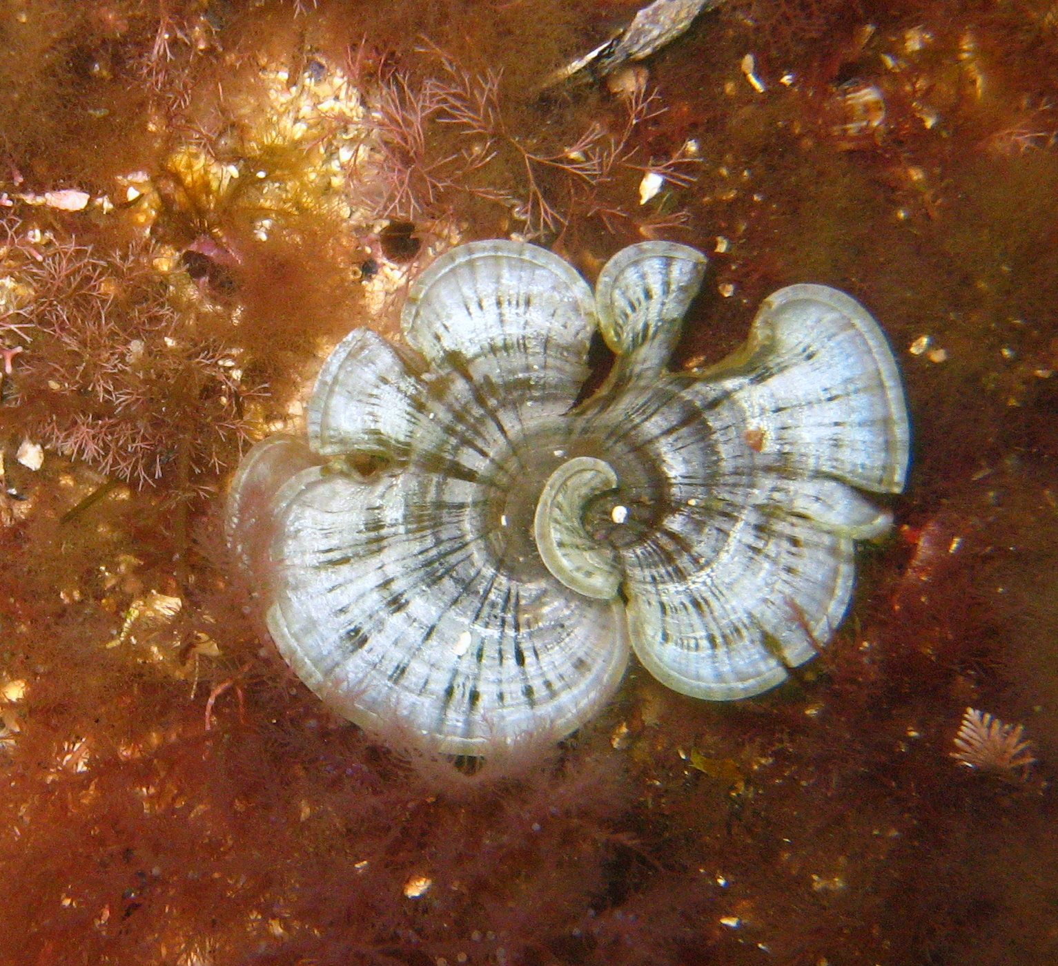 Padina pavonica, picture taken in Niolon near Marseilles